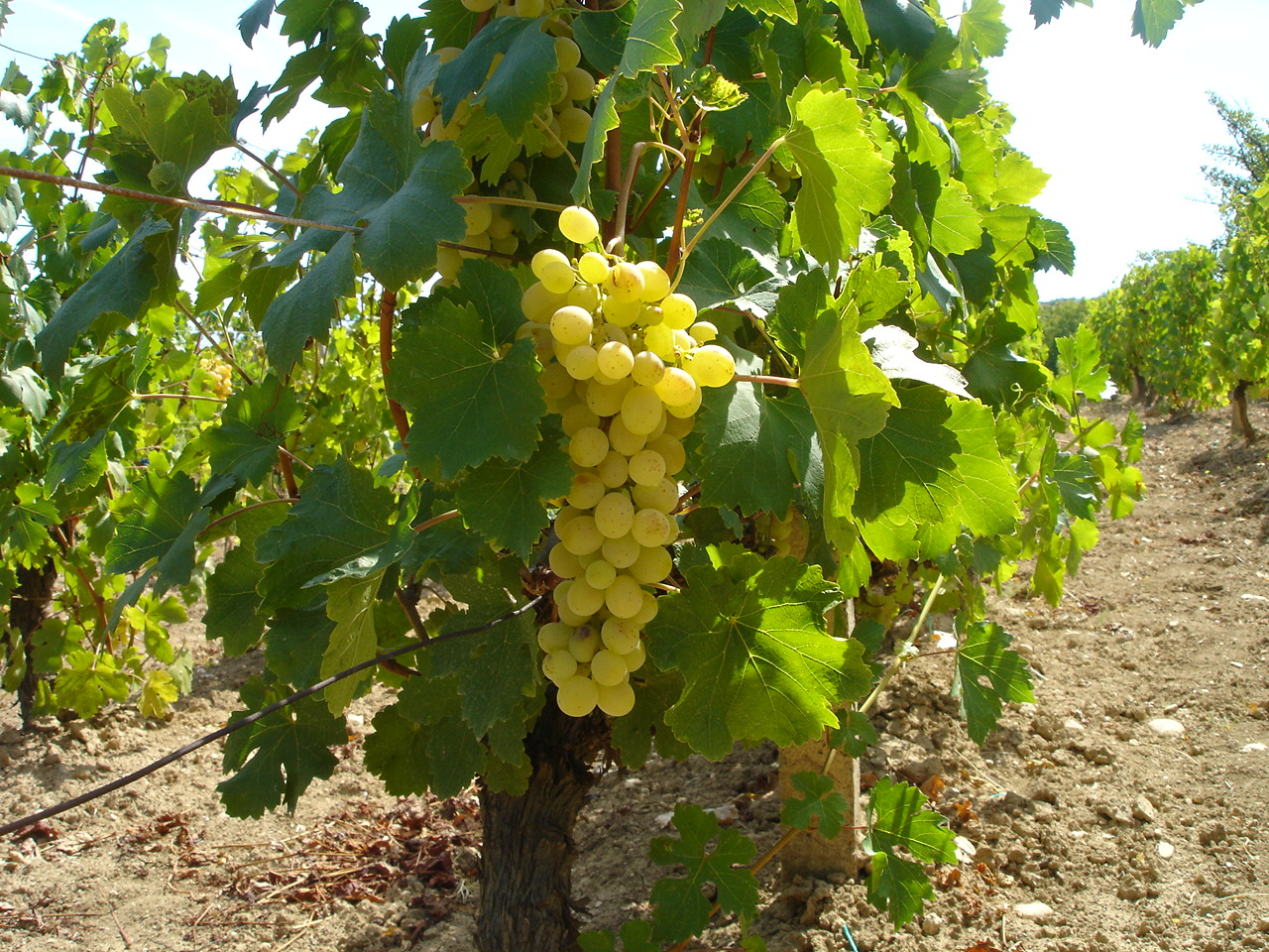 White grapes on a vineyard near Usje, Macedonia